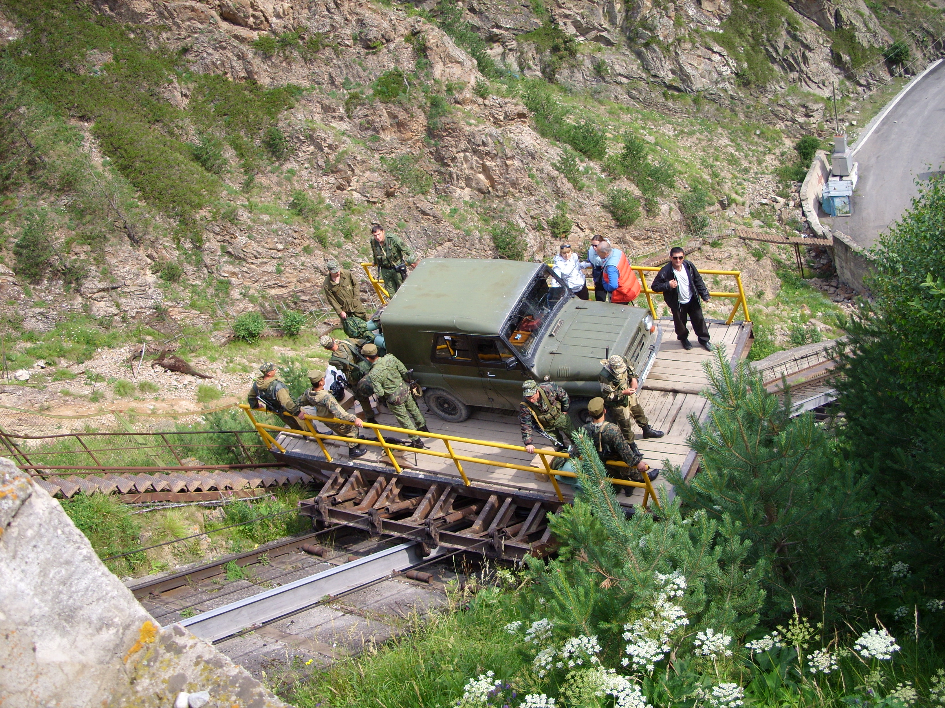 A cable way at the Adyr-Su Gorge (Caucasus, Russia) hauling up a border guard squad with their car